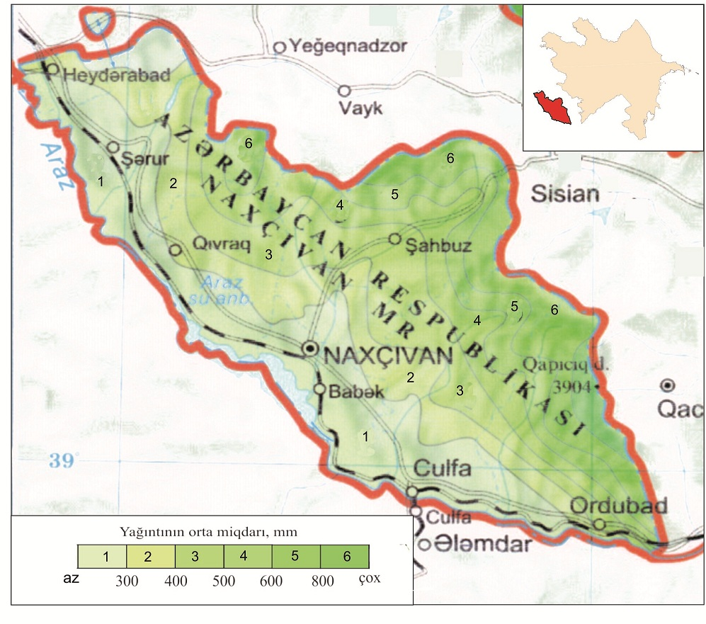 Orta Araz təbii vilayətində atmosfer yağıntılarının orta illik miqdarı, mm